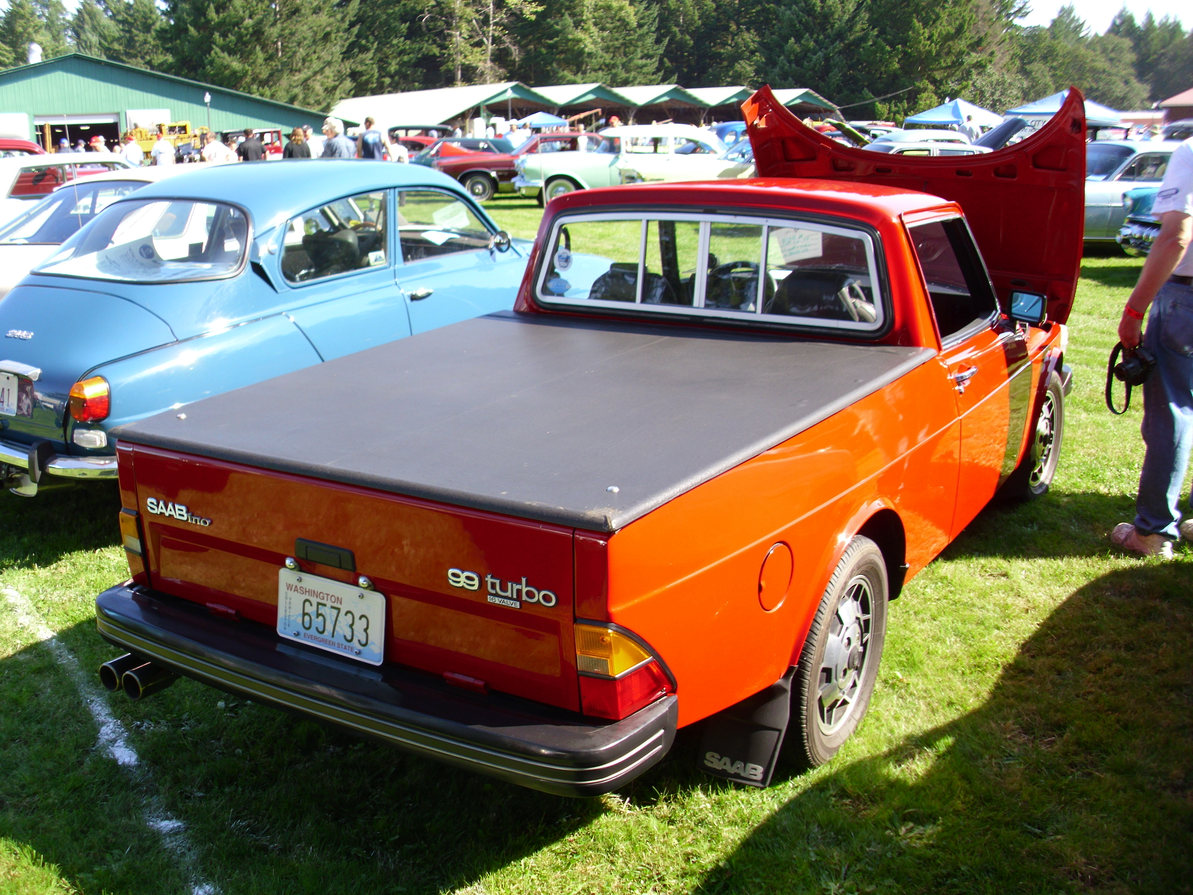 Seen in the car show at the LeMay Open House for 2011 in Spanaway, Washington. There was a car show for the public, and the collection of the LeMay family was also there to discover. I had a great time touring the two locations.